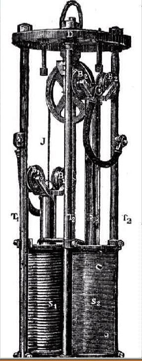 F. Křižík arc lamp regulator